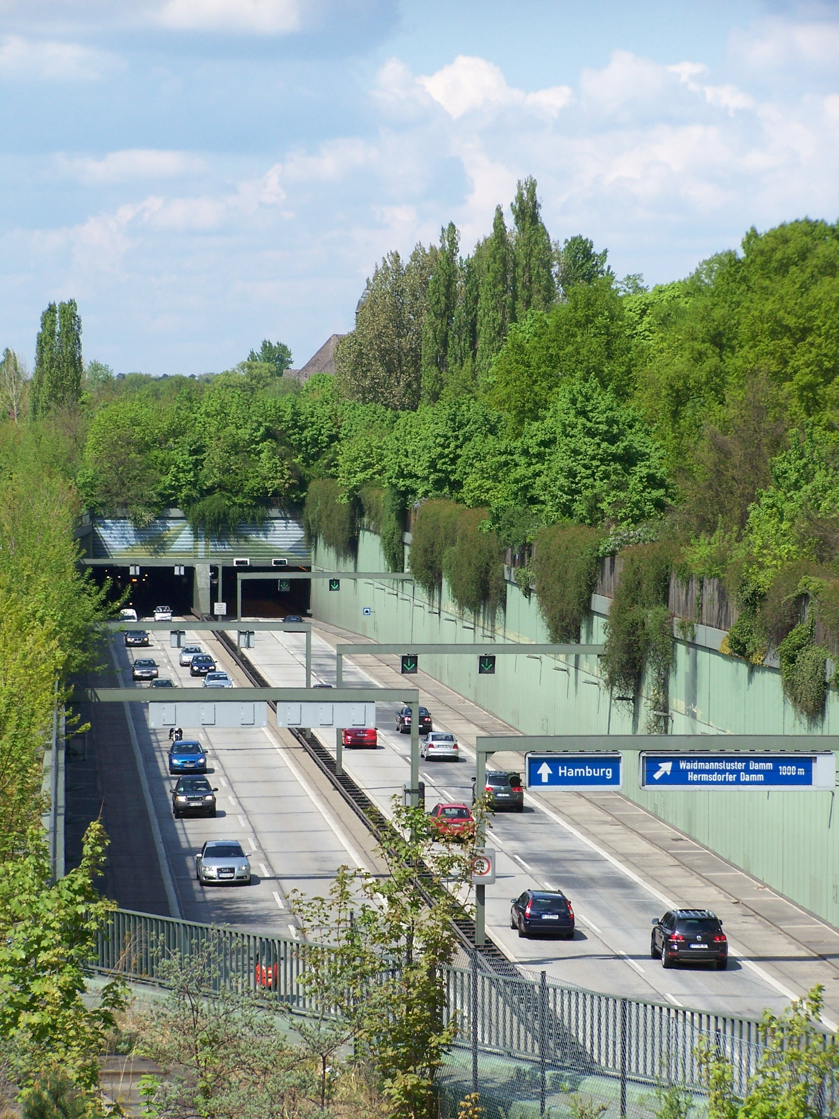 an open part of the german motorway A111 near Tegel, between the junctions Holzhauser Straße and Waidmannsluster Damm/Hermsdorfer Damm